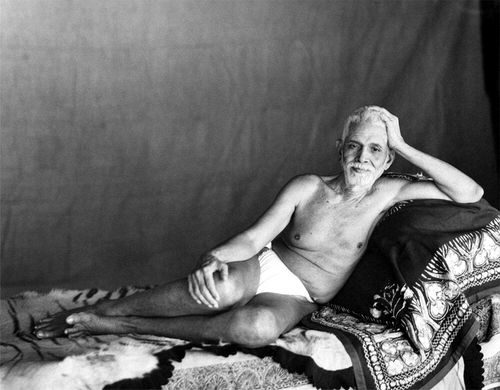 Indian mystic Ramana Maharshi, 1879-1950